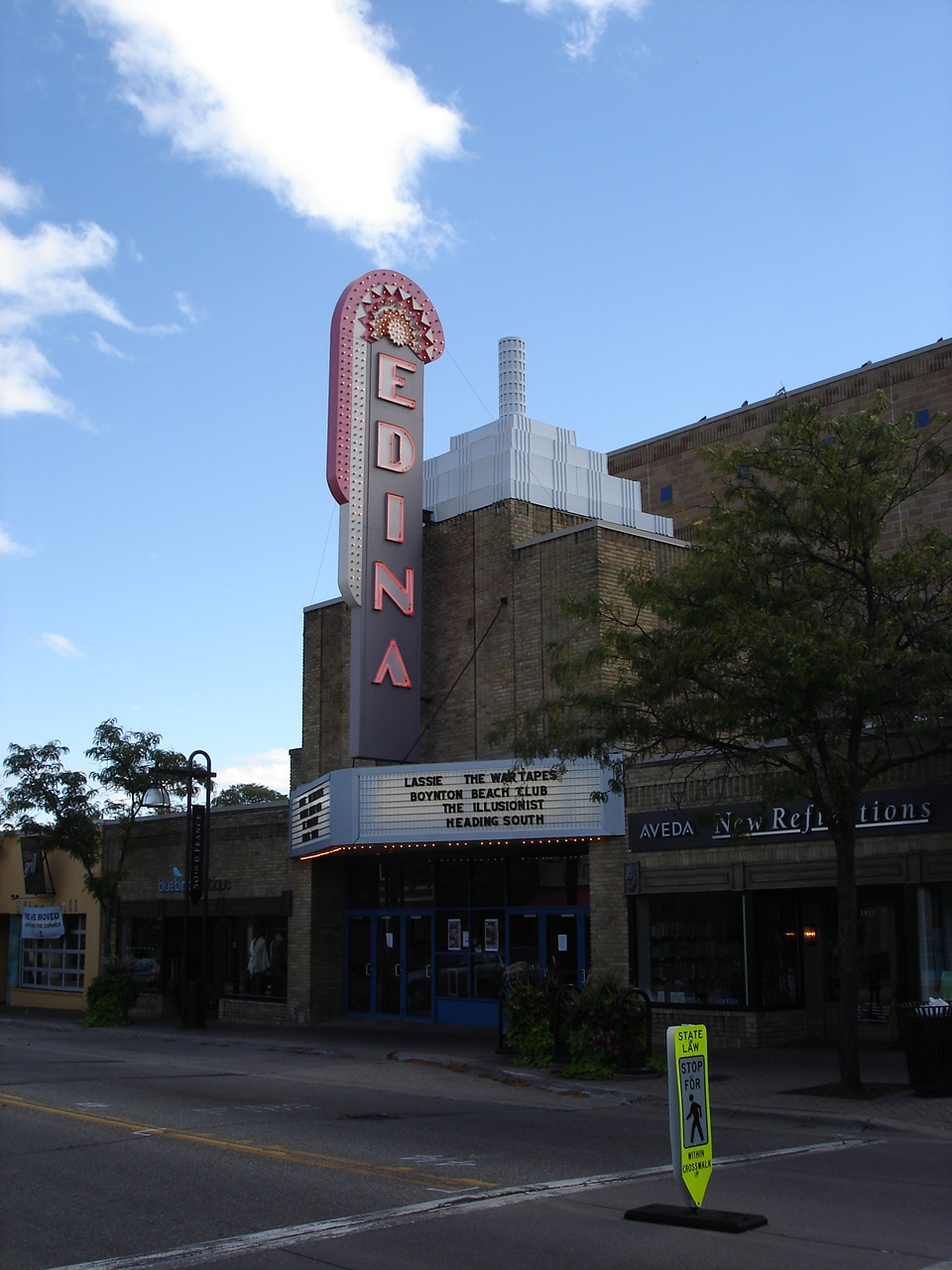 Image of the Edina Theater, taken by User:Gephart on September 18th 2006